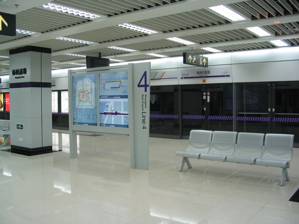 楊樹浦路站-4號線月台 Yangshupu Road Station